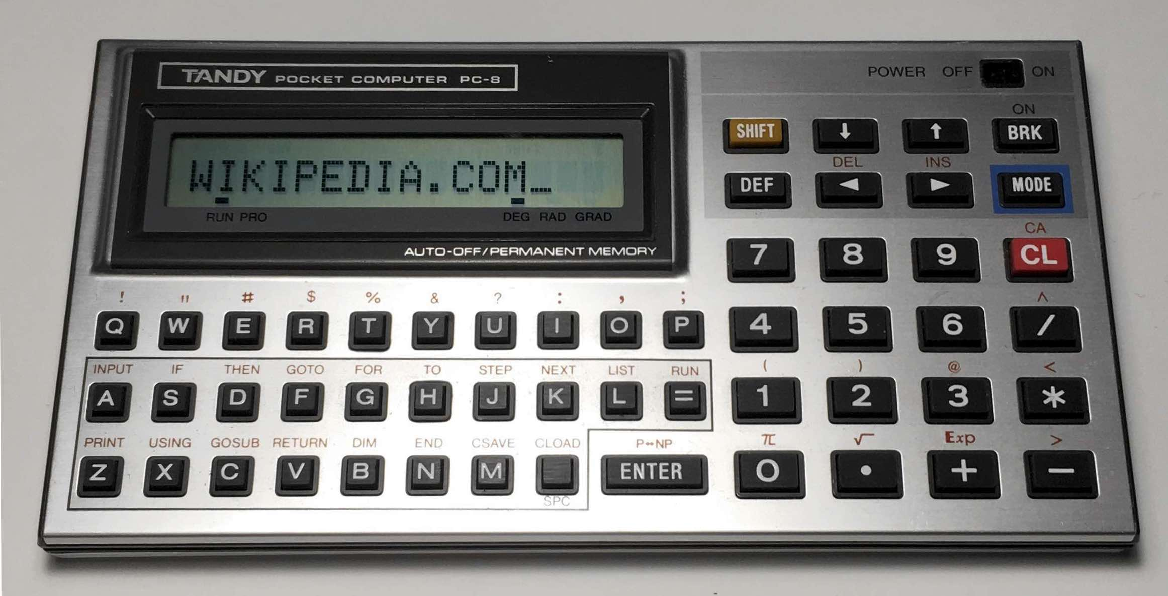 A pocket computer typical of the 1980s, the Tandy PC-8. It is a rebranded Sharp PC-1246.